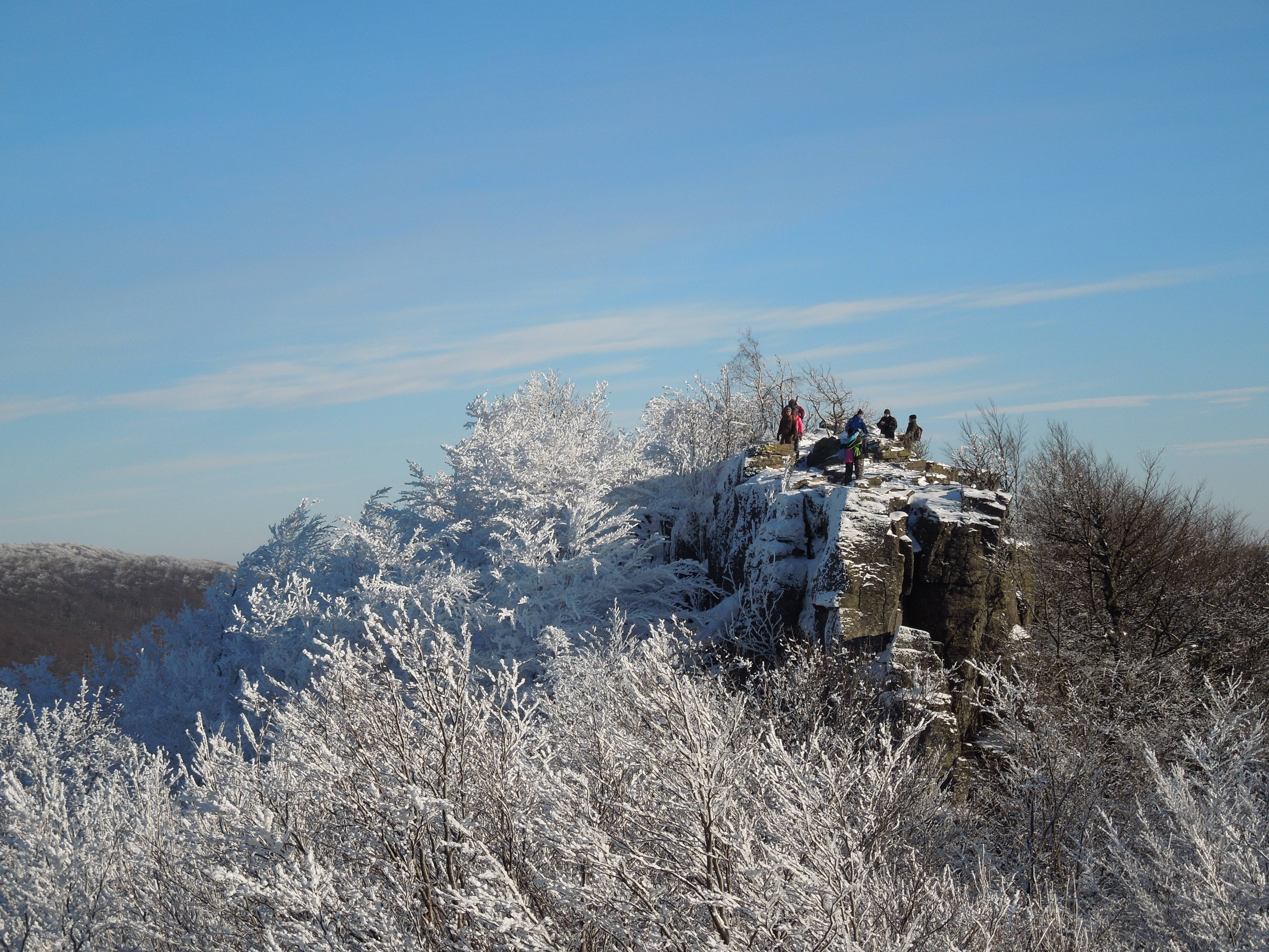 View of Small Sninský kameň from Big Sninský kameň in winter This is a photography of Natura 2000 protected area with ID SKUEV0209